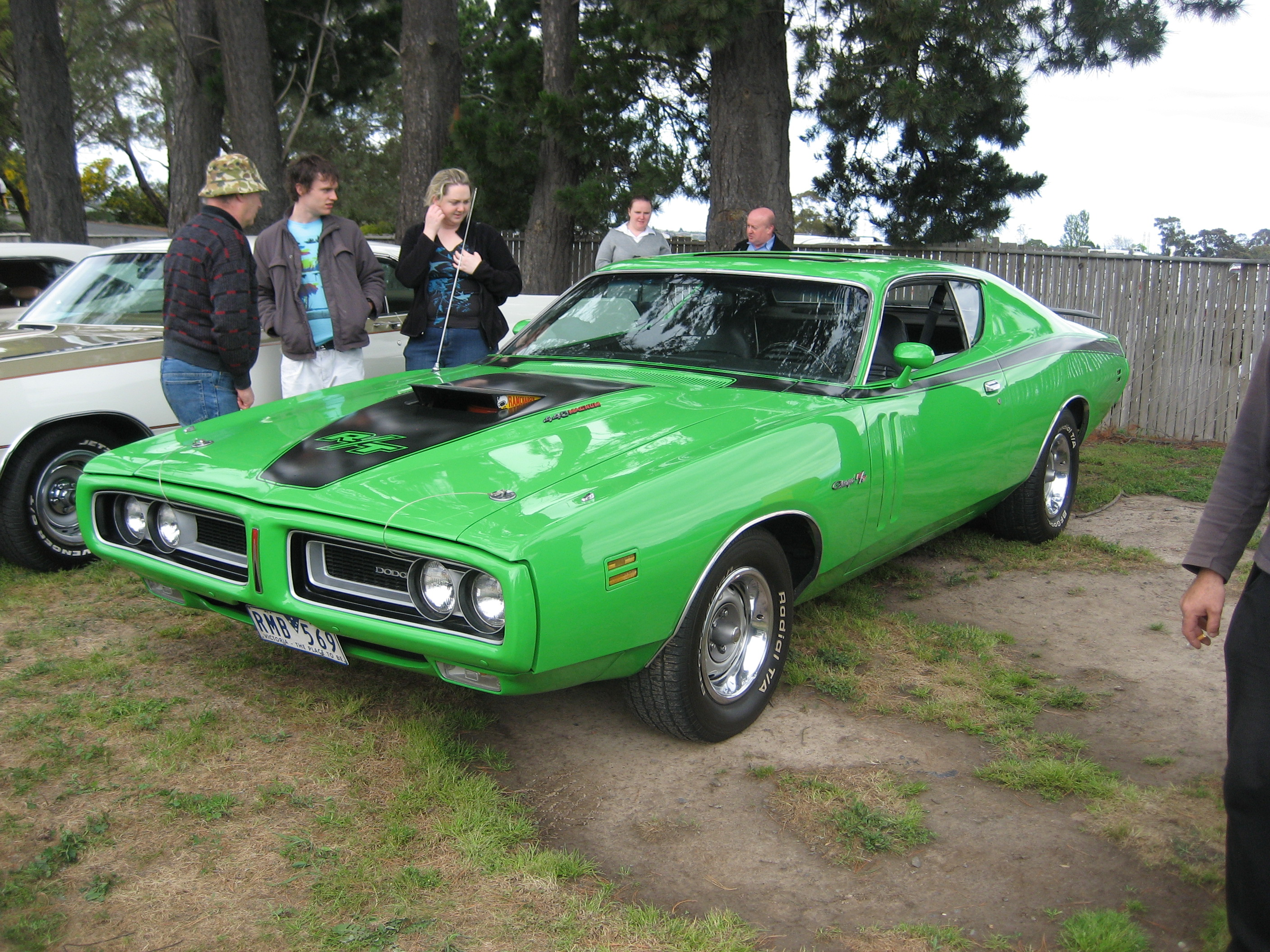 Green Go with Ramcharger Hood. Models; base, Hardtop, 500, SE, RT and Super Bee Engines; 225 6, 318, 383, 440 and last year for the 426 Hemi